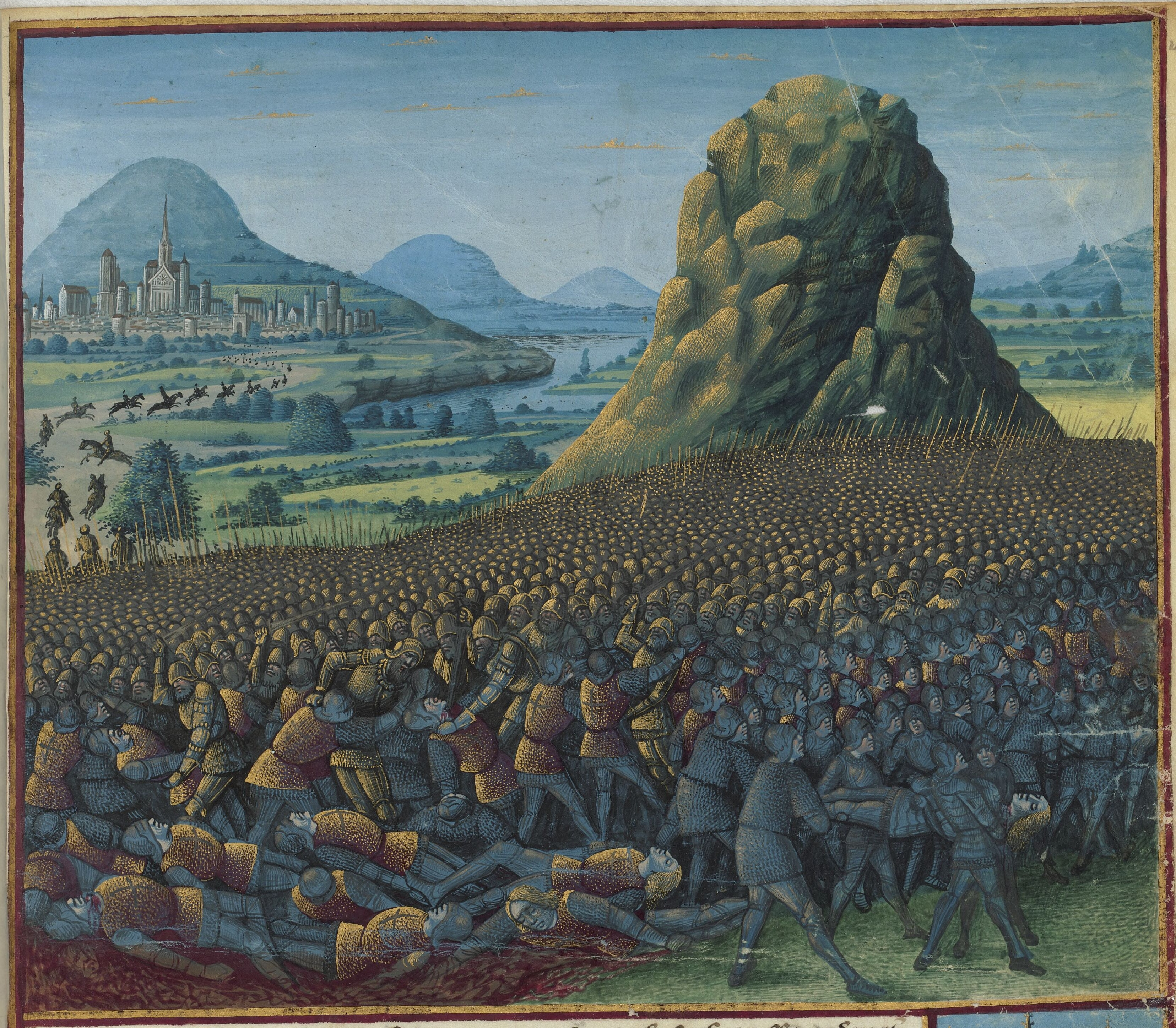 Second_battle_of_Ramla FROM THE BOOK: Les Passages d'outremer faits par les Français contre les Turcs depuis Charlemagne jusqu'en 1462